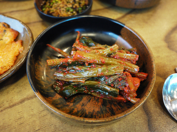 Gat-gimchi (mustard green kimchi)